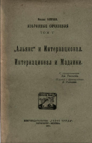 The publisher agrdeed to copy the book.